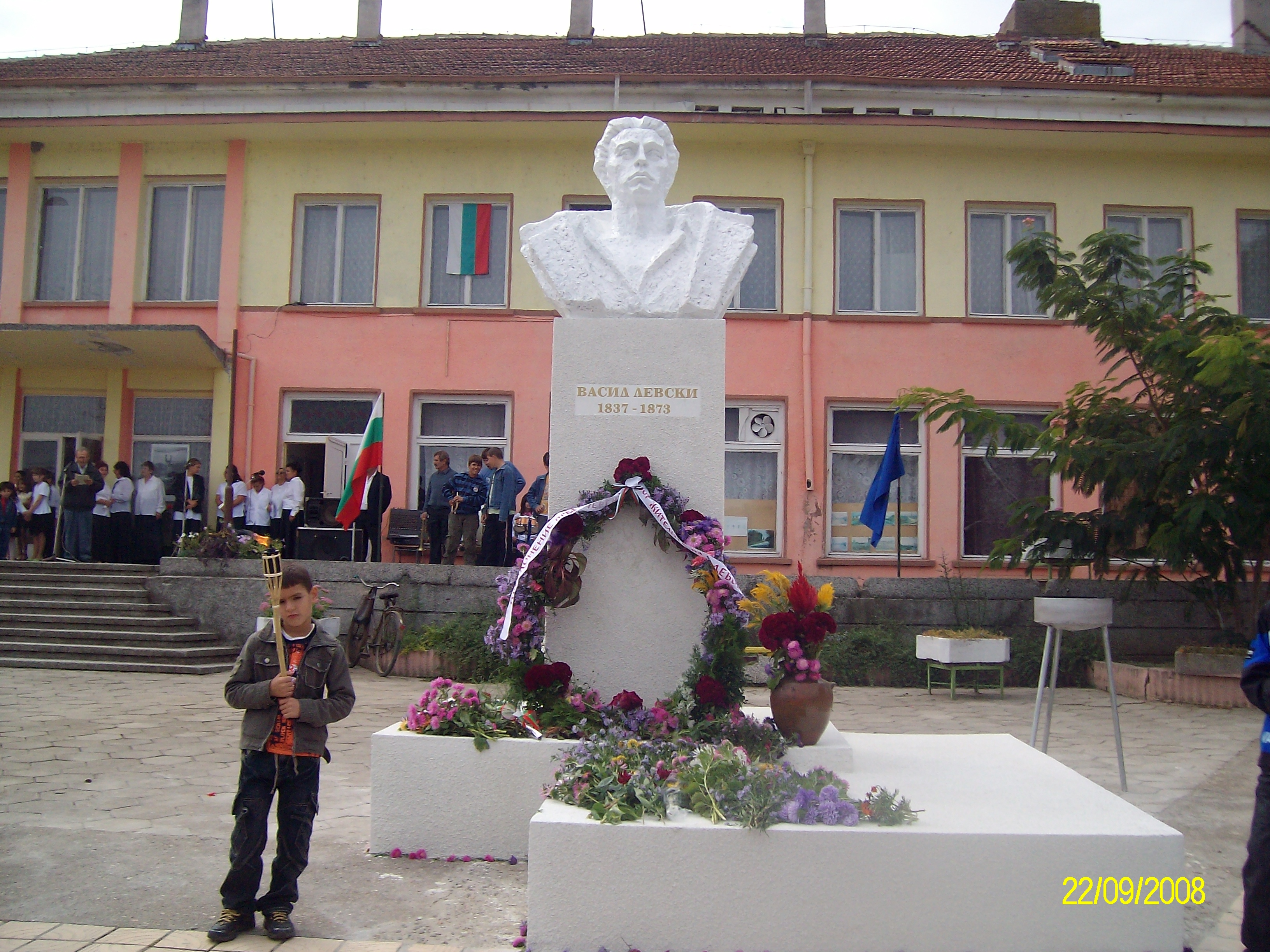 The monument of V. Levski in Debovo village (behint it - "Consent" community centre).